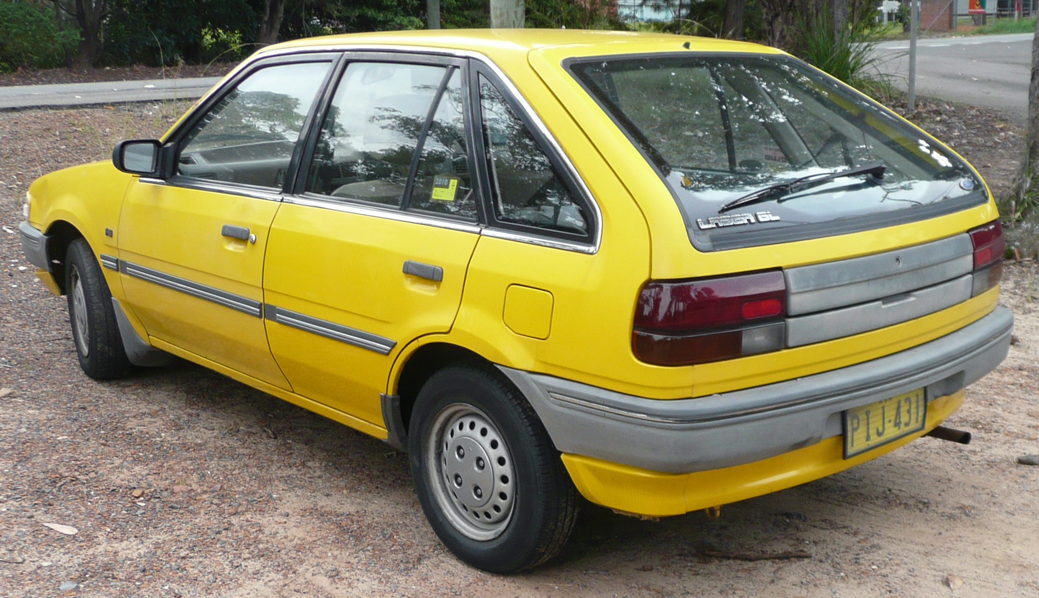 1988 Ford Laser (KE) GL 5-door hatchback. Photographed in Sutherland, New South Wales, Australia.